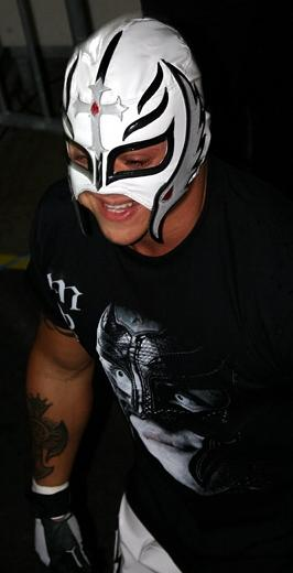 Rey Mysterio during a WWE house show held in Kitchener, Ontario, Canada on January 15, 2005.